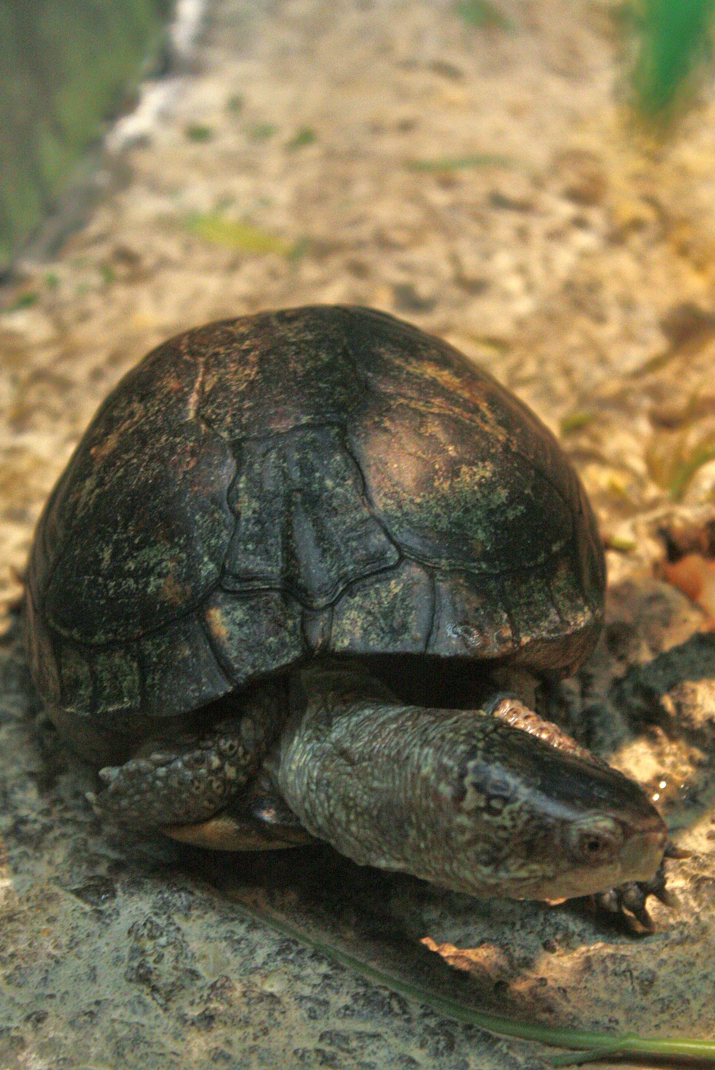 Coahuilan box turtle (Terrapene coahuila), in captivity at the Columbus Zoo, Powell, Ohio.